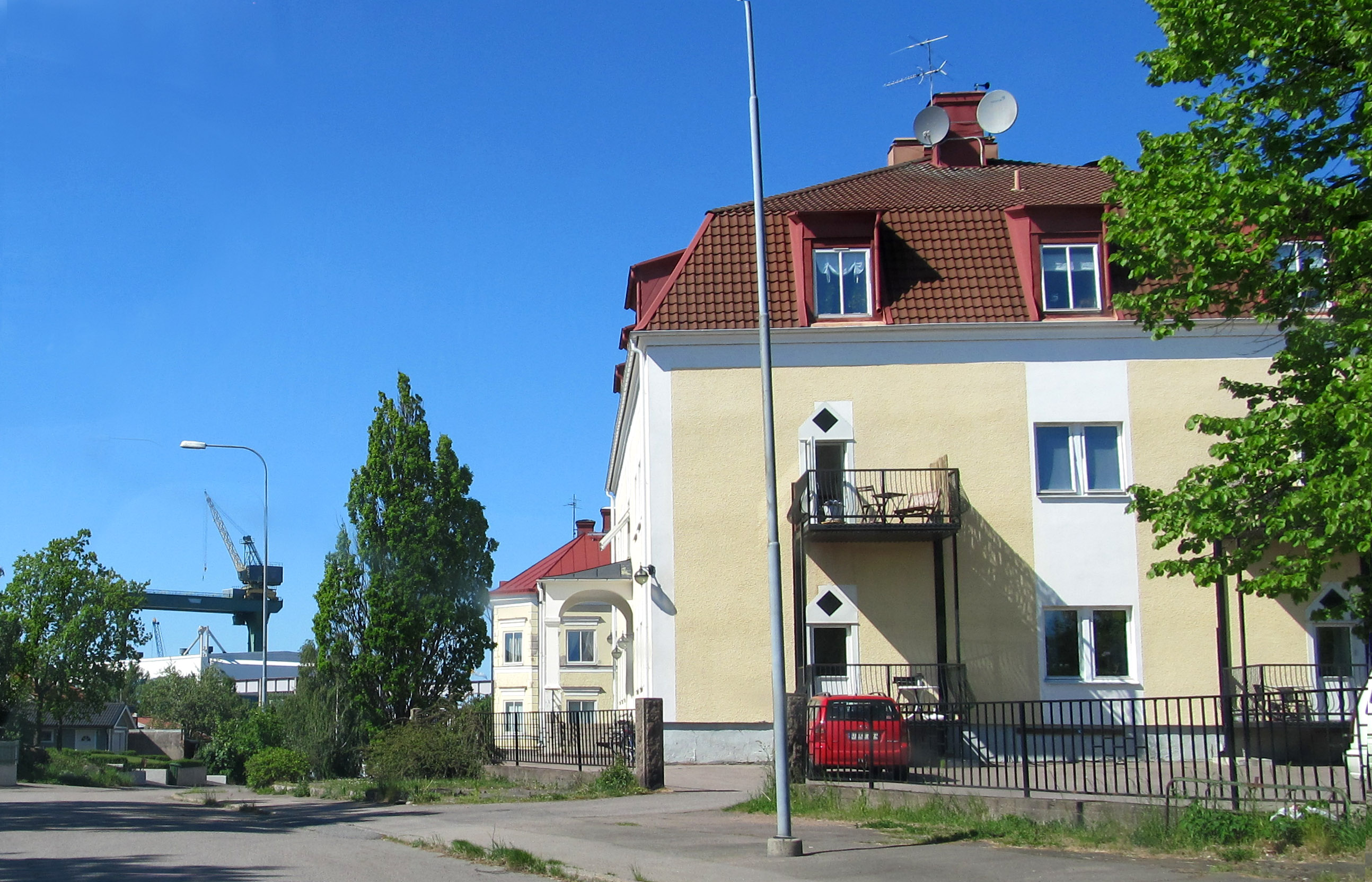 Gröndal in Oskarshamn, Sweden, Europe.